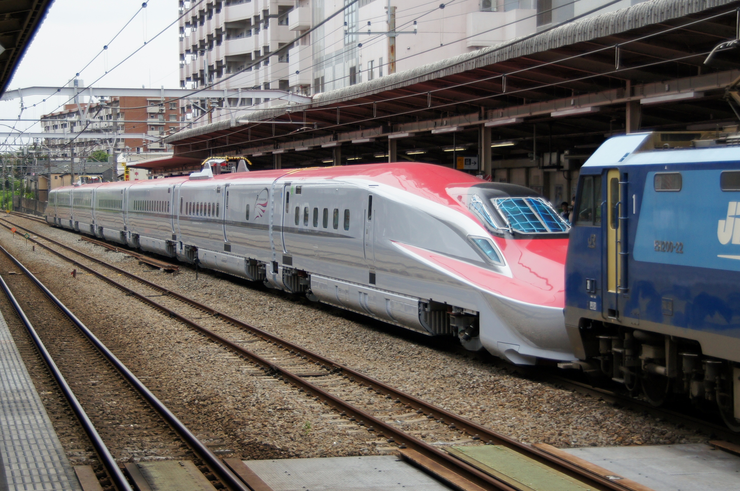 JR East E6 series shinkansen set Z9 hauled by JR Freight electric locomotive EH200-22 through Nishi-Kokubunji Station on the Musashino Line on delivery from the Kawasaki Heavy Industries factory in Kobe to Akita Depot